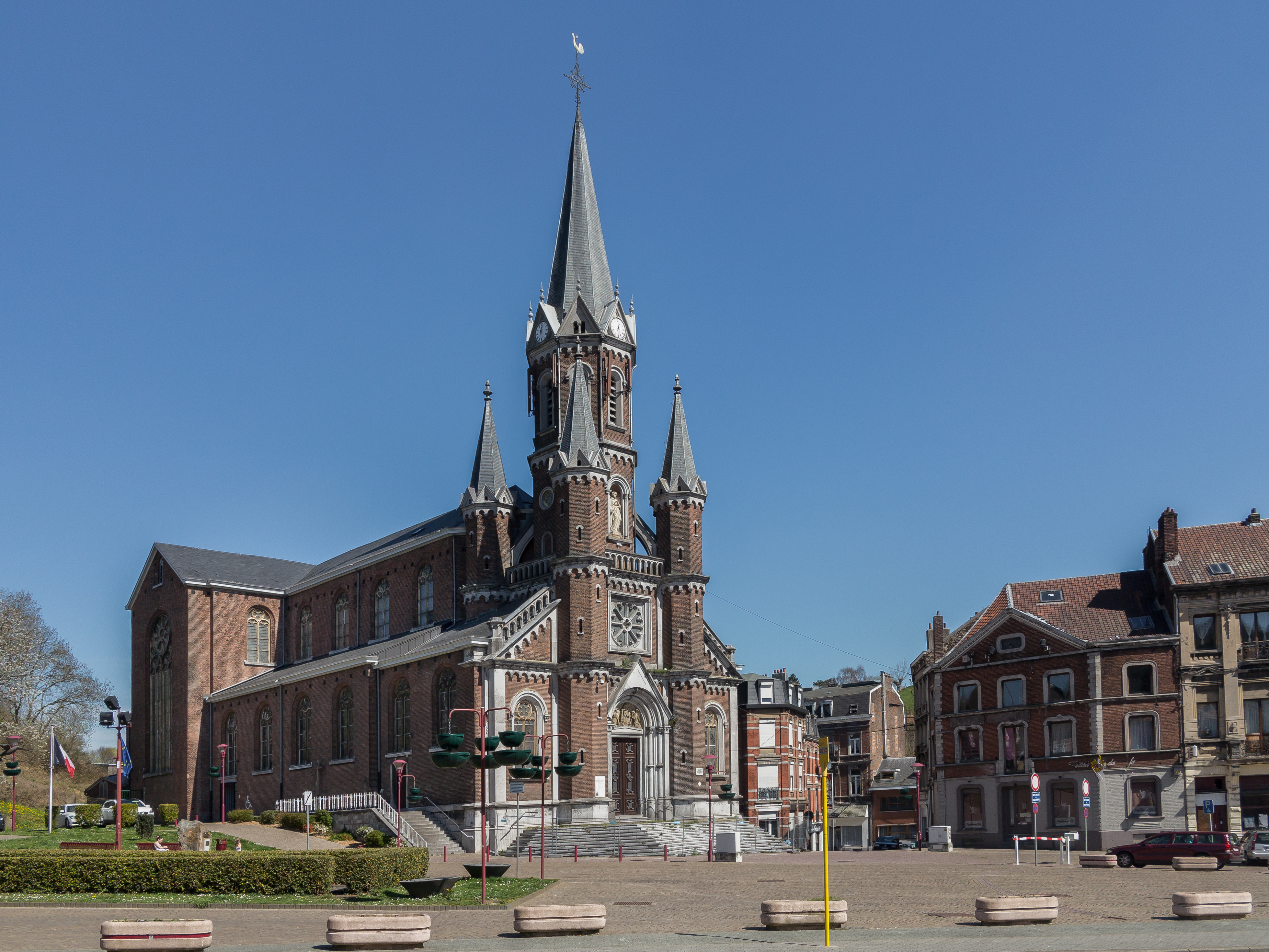 Dison, church: l'église Saint-Fiacre